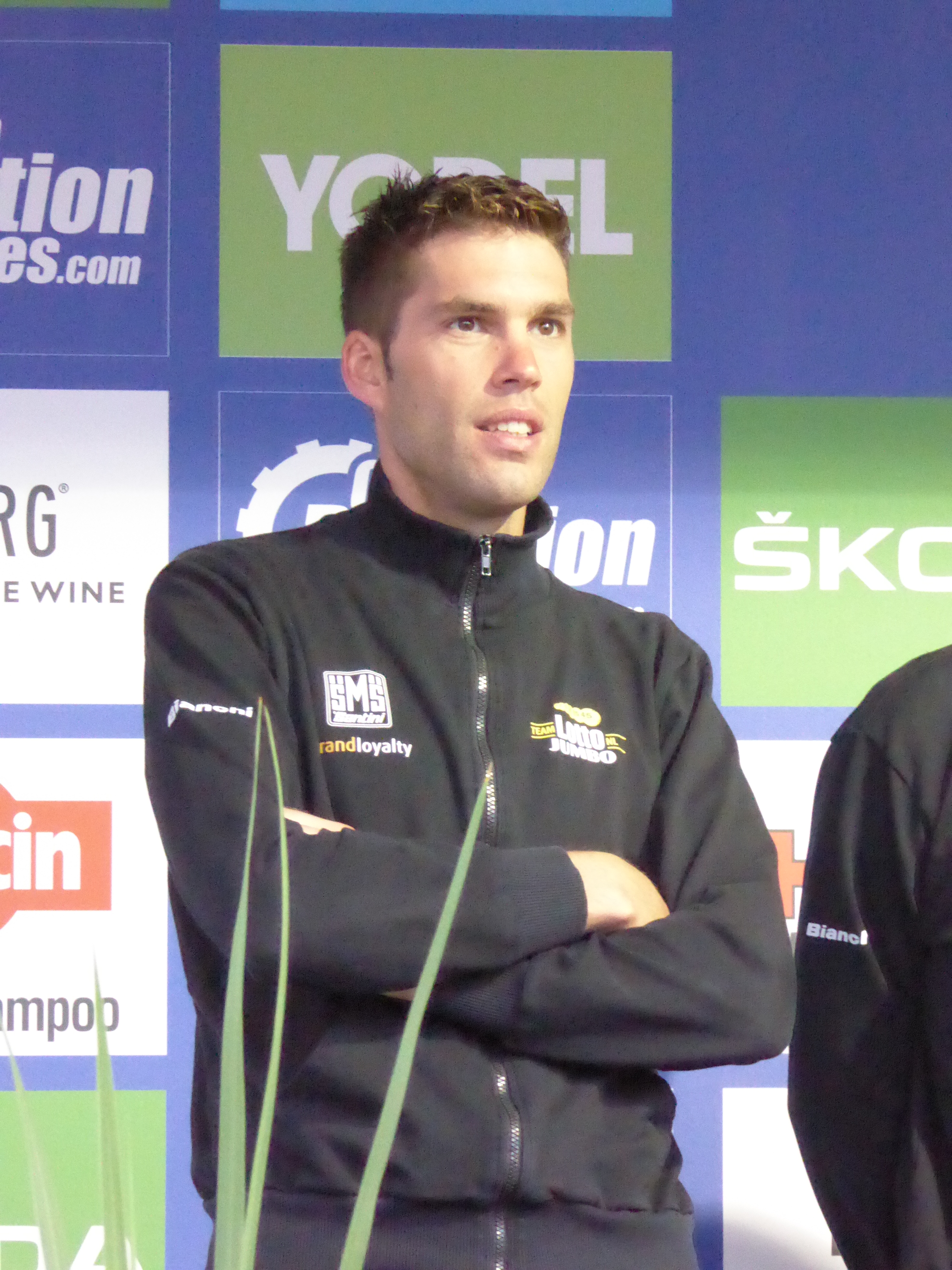 Maarten Wynants (Team LottoNL-Jumbo), pictured at the 2016 Tour of Britain team presentation in Glasgow on 3 September 2016.